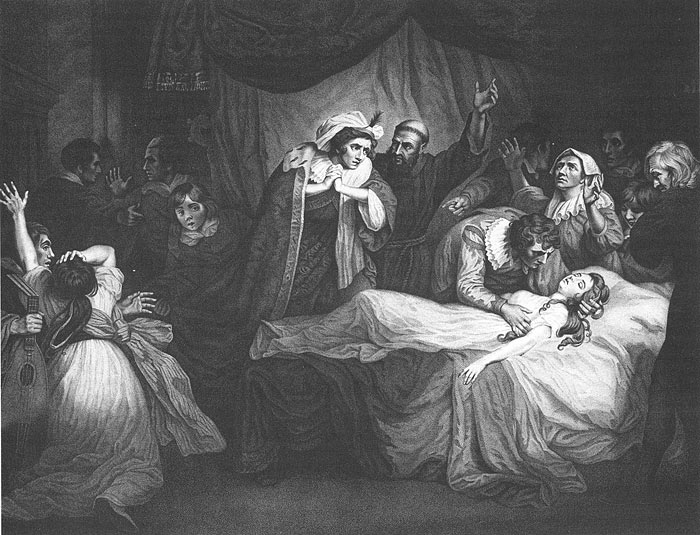 Romeo and Juliet (Act IV, scene V)